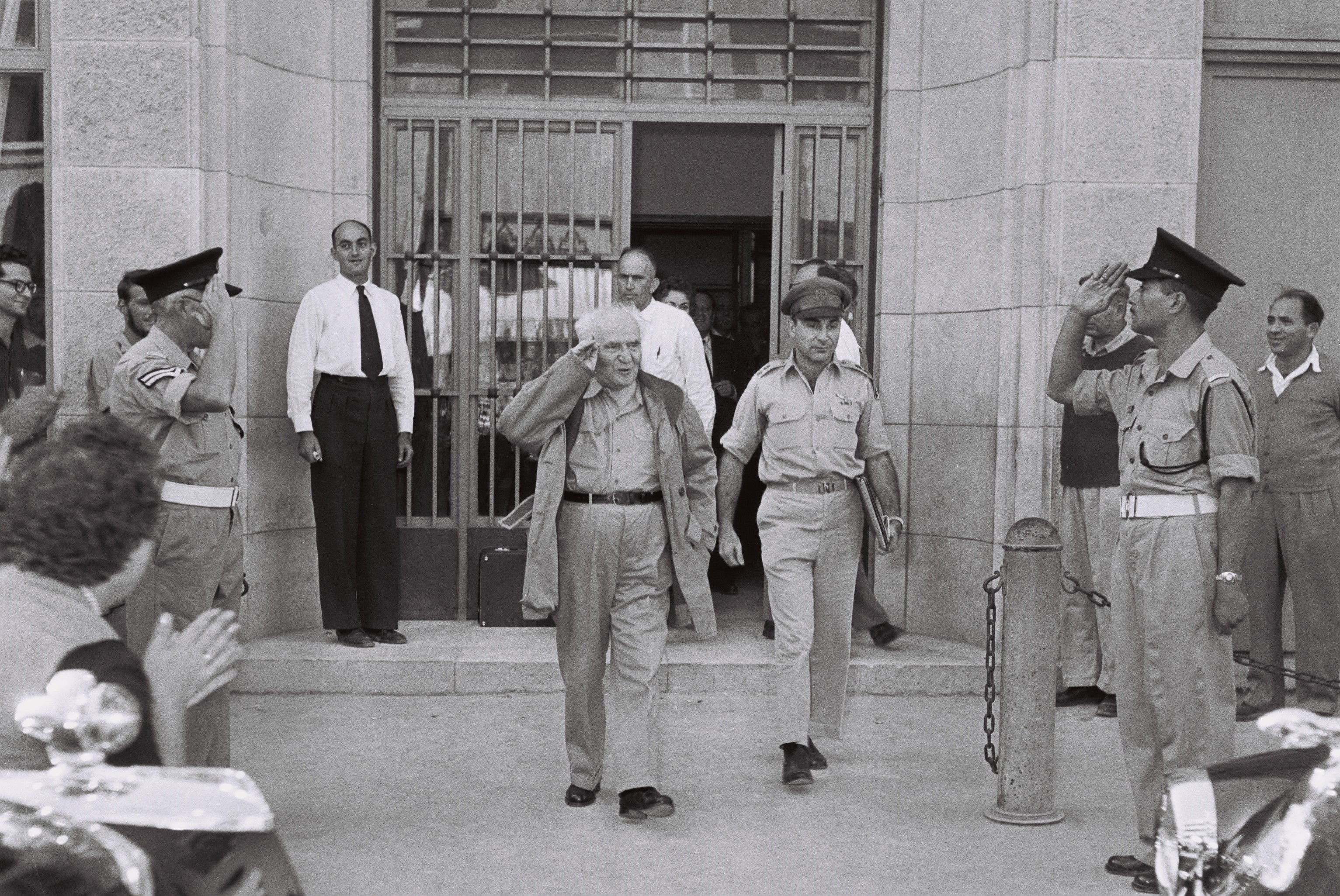 PM David Ben-Gurion leaving a session of the Knesset accompanied by his military secretary Nehemia Argov